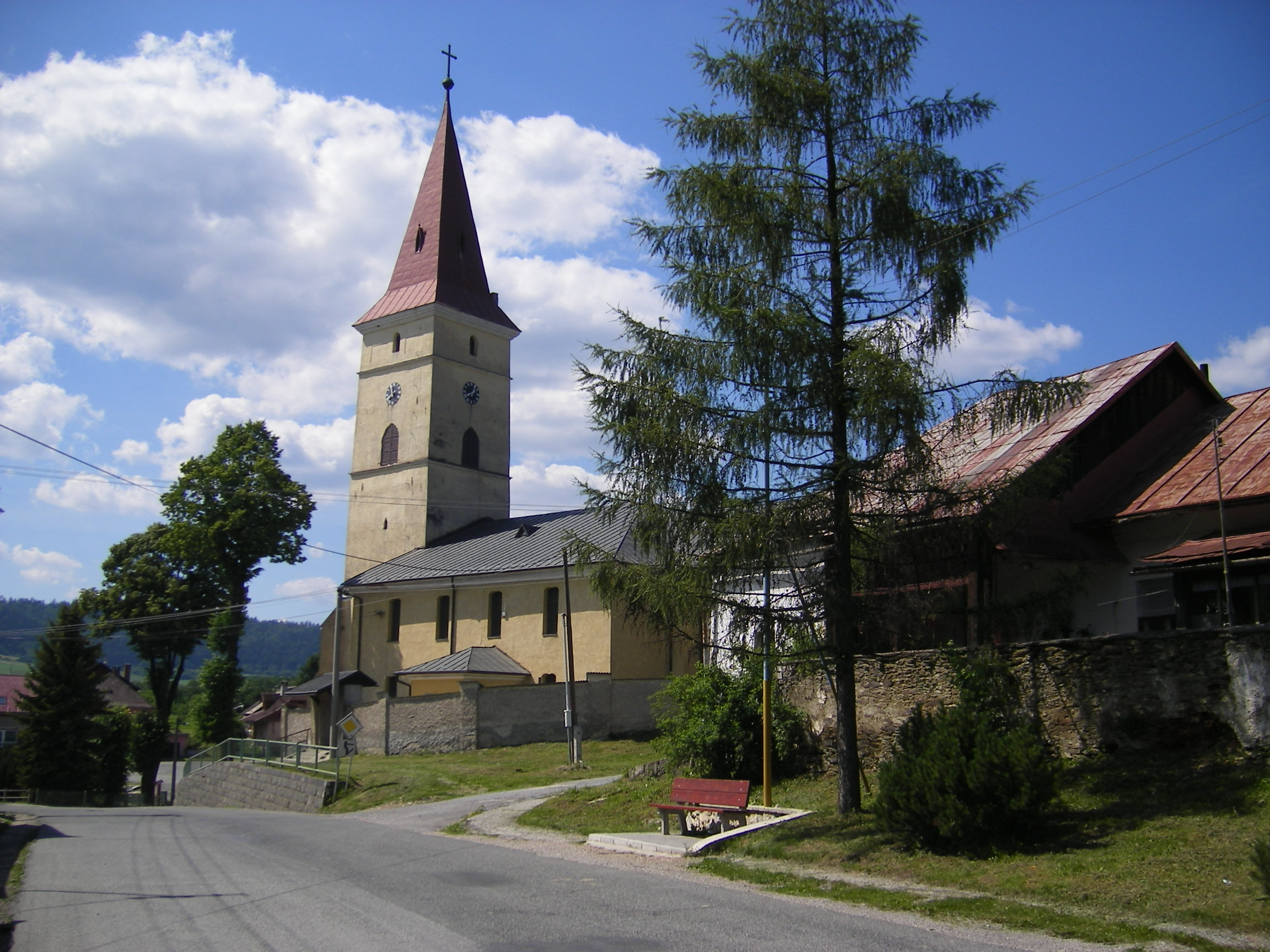 Švedlár (okres Gelnica), St. Margerithe church